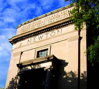 Cropped/sharpened version of MIT-newton-tower.jpg Same image as MIT-newton-tower.jpg; cropped, sharpened, levels adjusted by :en:User:Dpbsmith|Dpbsmith (talk) for the specific purpose of making the names more legible. :en:User:Dpbsmith|Dpbsmith (talk) 15:37, 12 Dec 2004 (UTC)